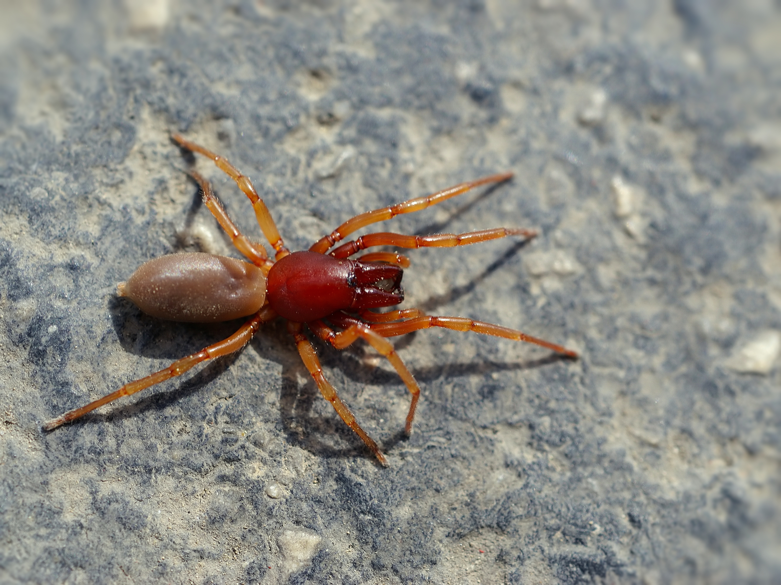 Woodlouse spider at el Perelló, Catalonia, Spain